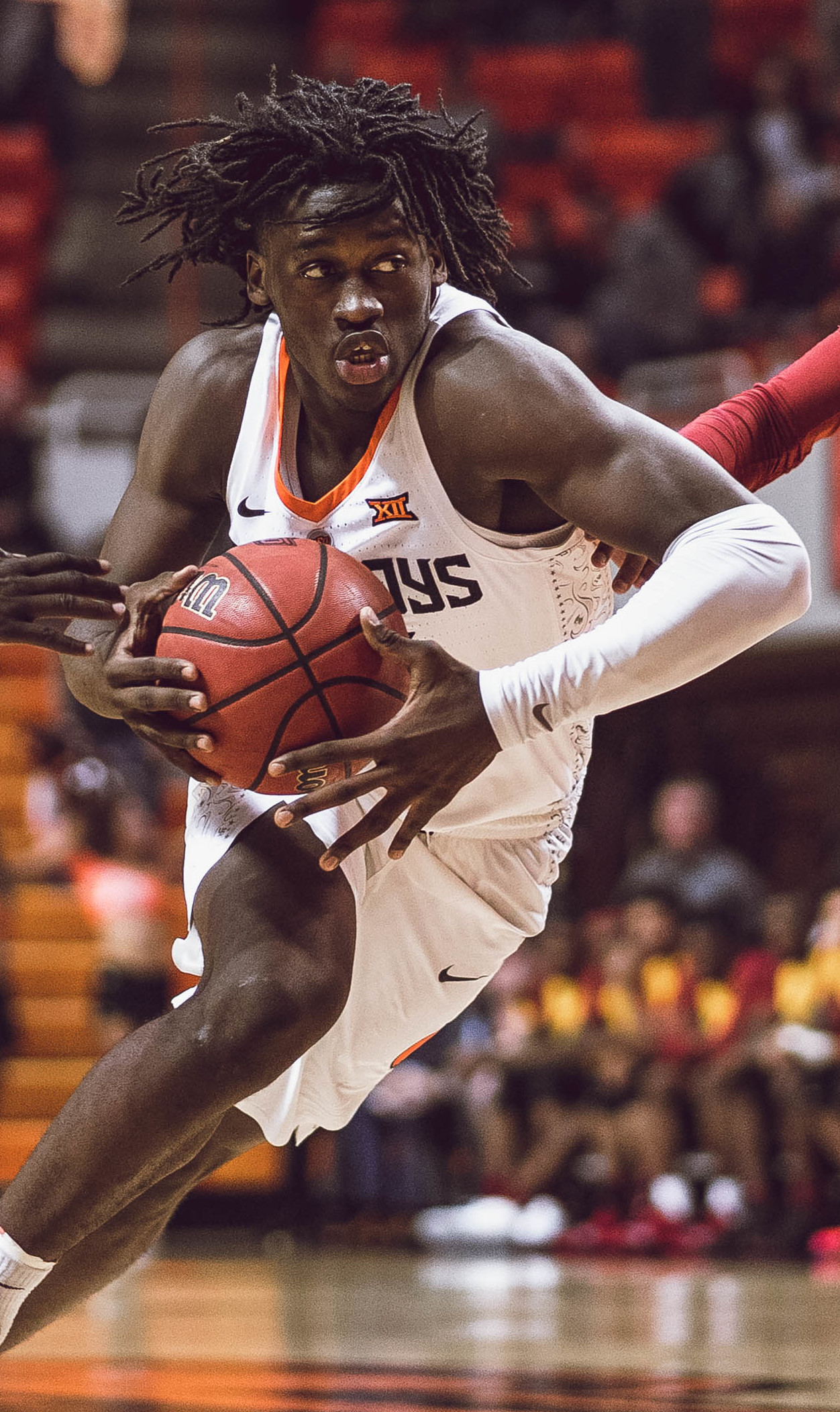 Oklahoma State Cowboys vs Iowa State Cyclones Men's Basketball Game, Wednesday, January 2, 2019, Gallagher-Iba Arena, Stillwater, OK. Courtney Bay/OSU Athletics